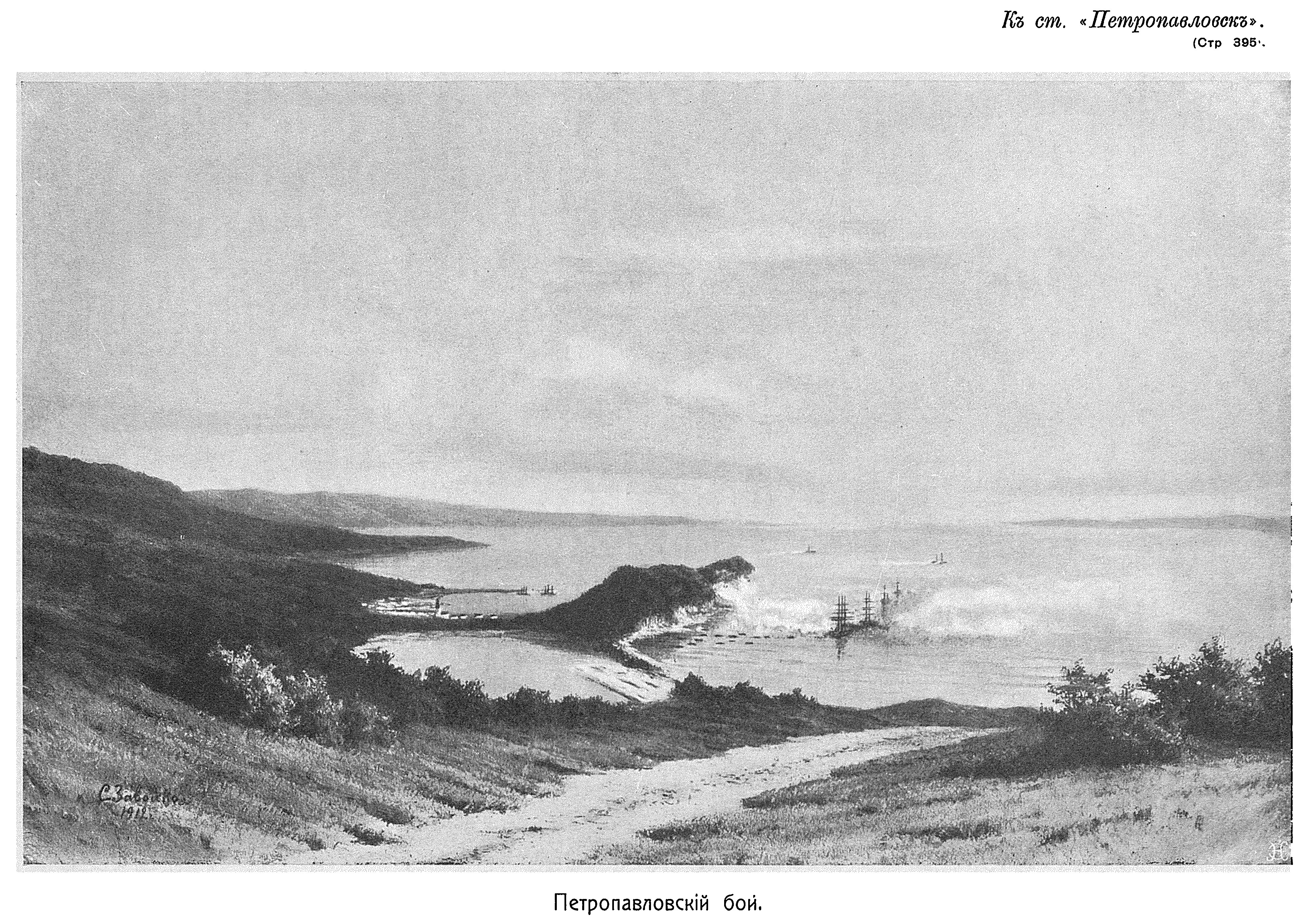 The Siege of Petropavlovsk was a military operation in the Pacific Theatre of the Crimean War. The Russian casualties are estimated at 115 soldiers and sailors killed and seriously wounded, whilst the British suffered 105 casualties and the French 104.